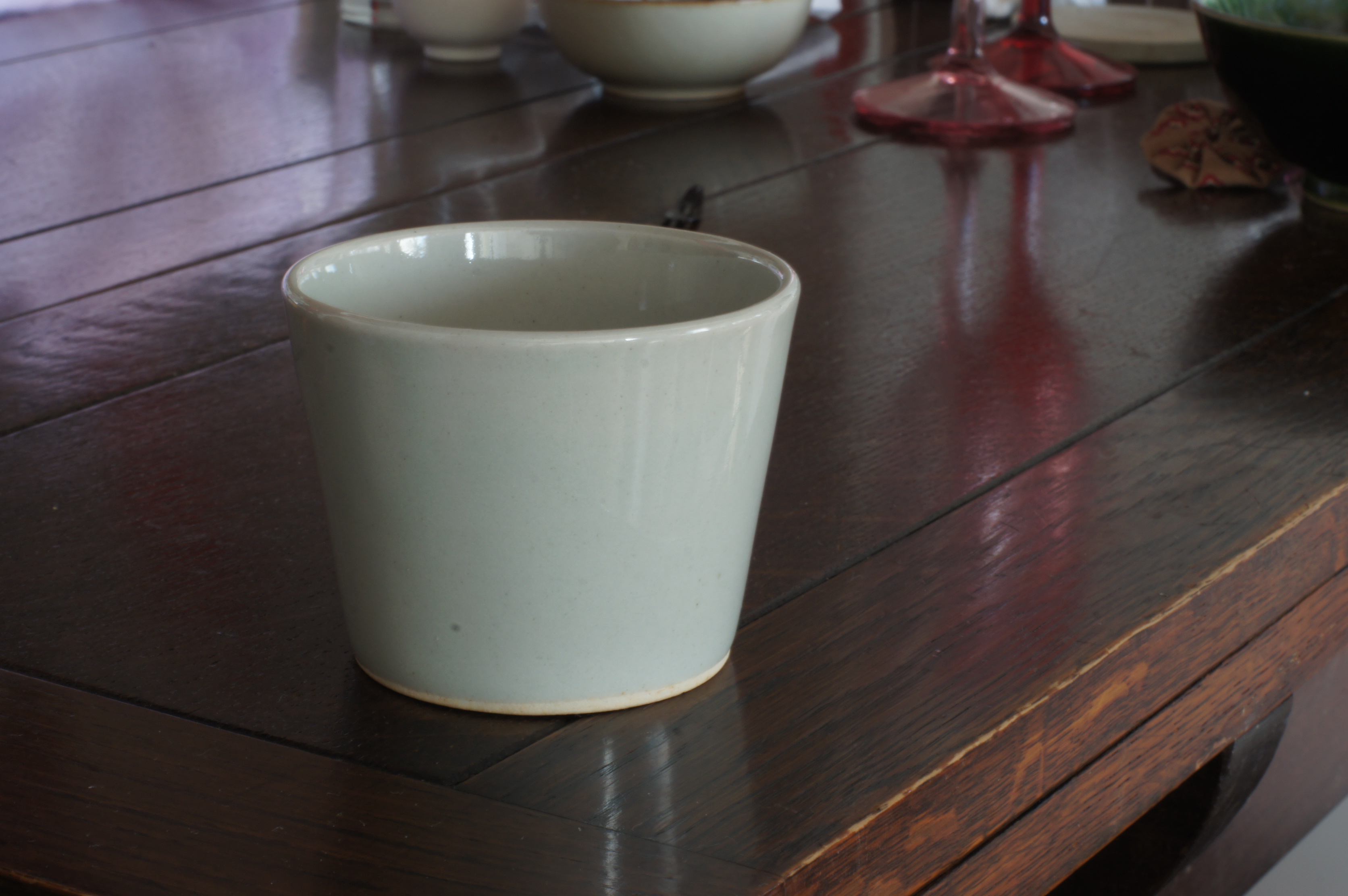 NEX5 + new FD 50mm f1.4